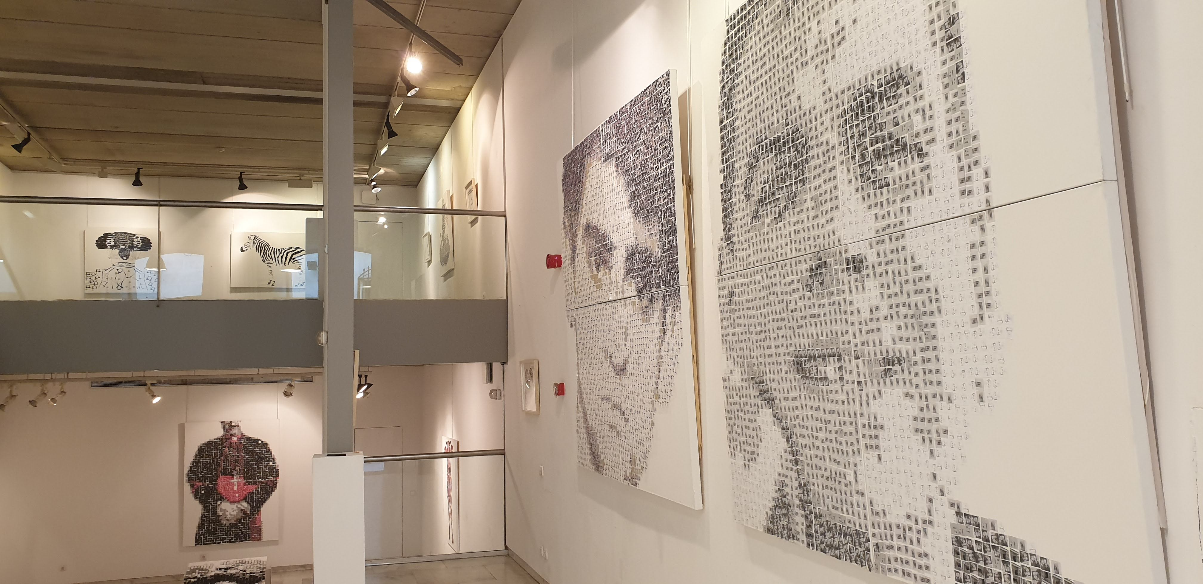 View of the exposiction hall at the Ateneo de Madrid, o the time of the exhibition Weapons and souls by artist Daniel Garbade